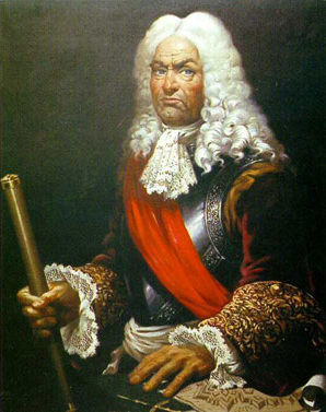 The Marquis of Verboom